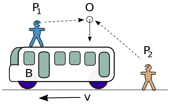 Inertial frame of reference top of the bus